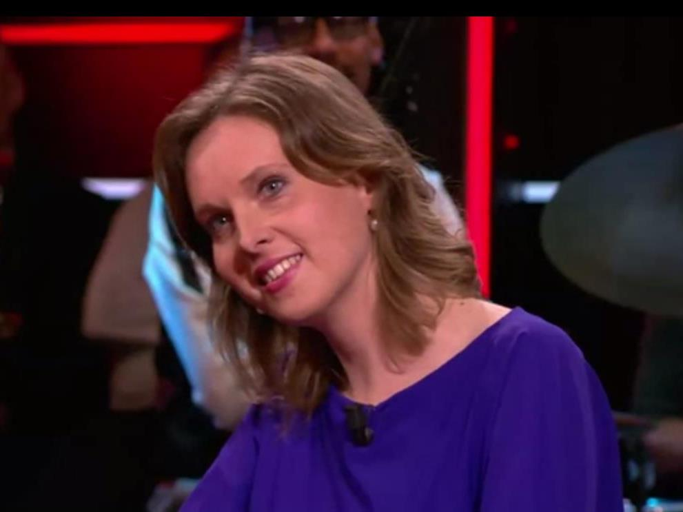 Stieneke van der Graaf (ChristenUnie) bij DWDD